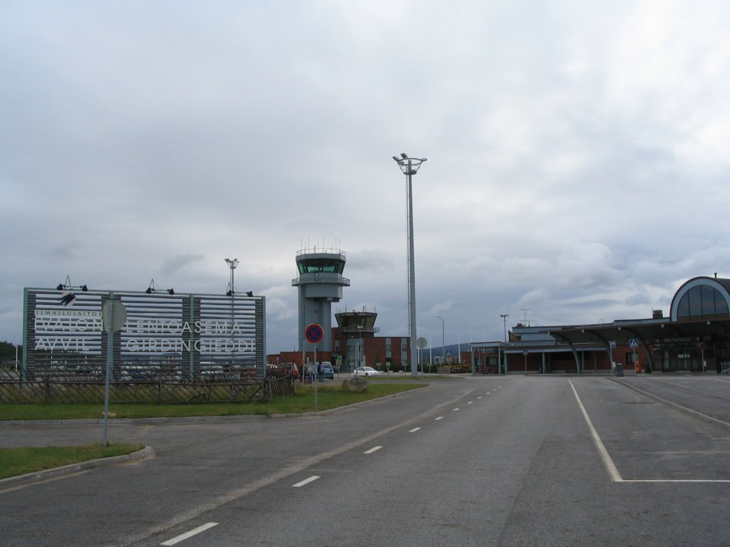 Ivalo Airport, located in Ivalo, Inari, Finland, in summer 2004.